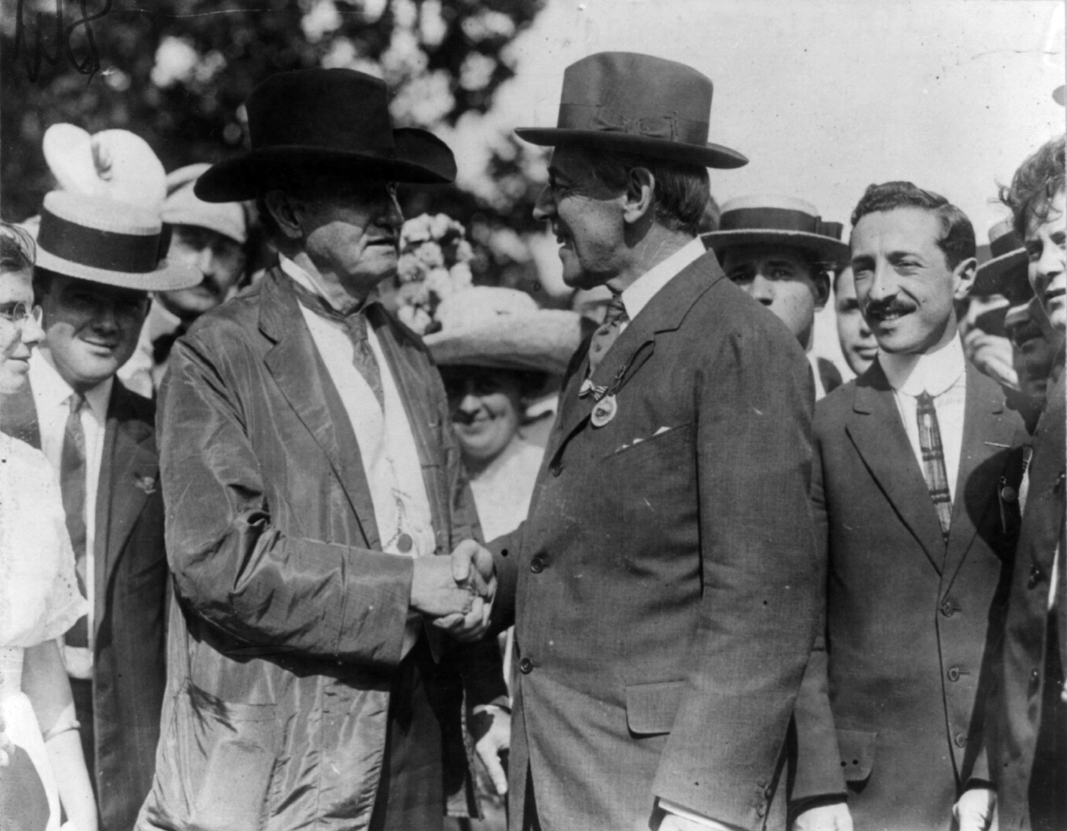 U.S. Senator Benjamin Tillman (left, black hat) shaking hands with New Jersey Governor Woodrow Wilson